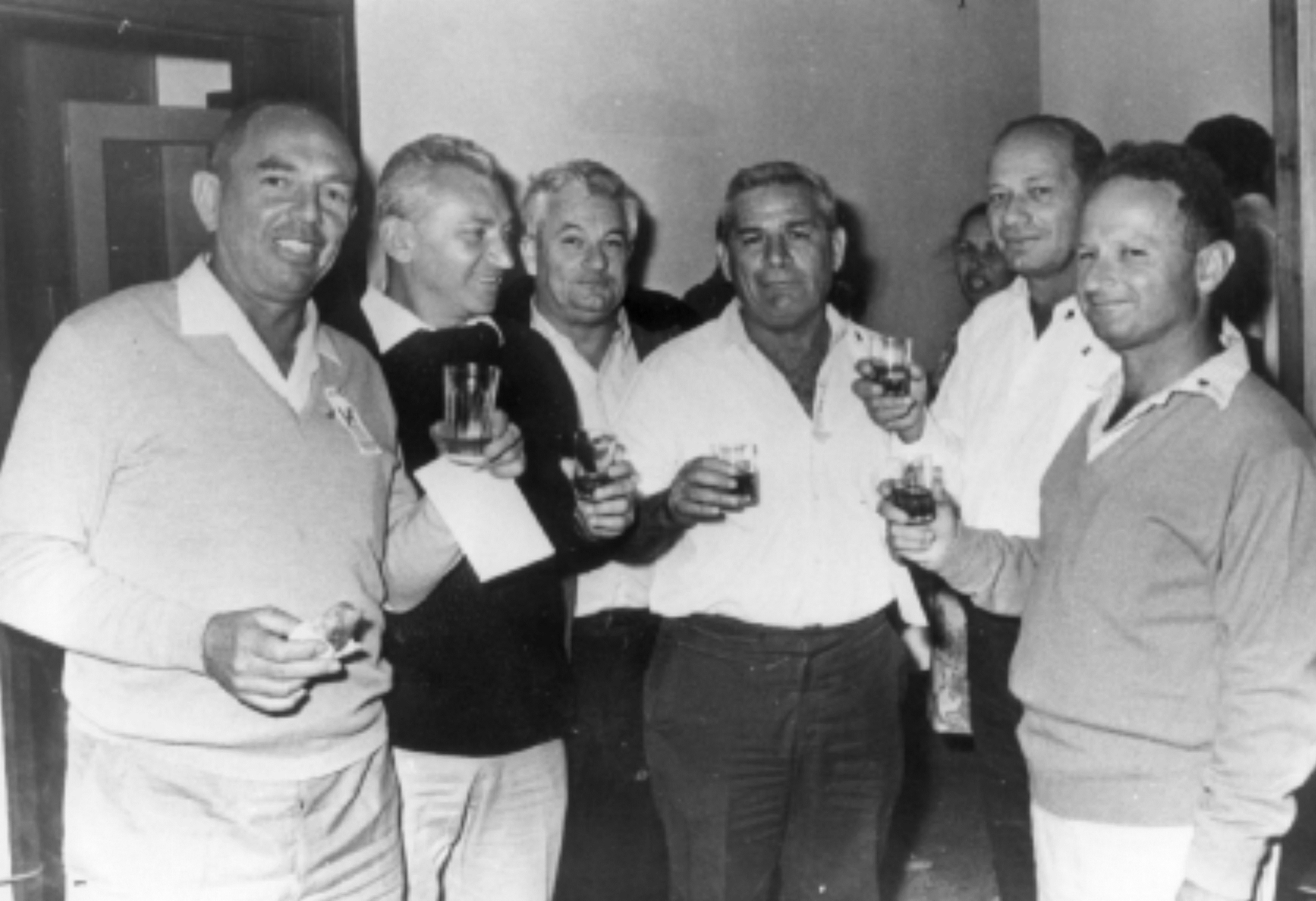 The Palmach, Israel Defense Forces